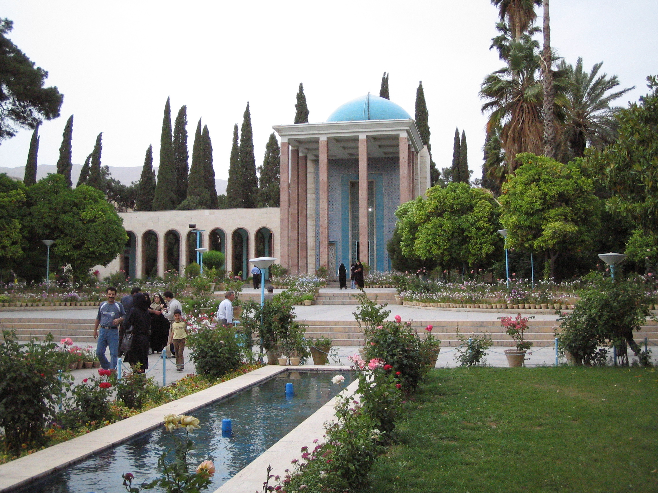 Mausoleum of Sa'adi in Shiraz, Fars province, Iran.